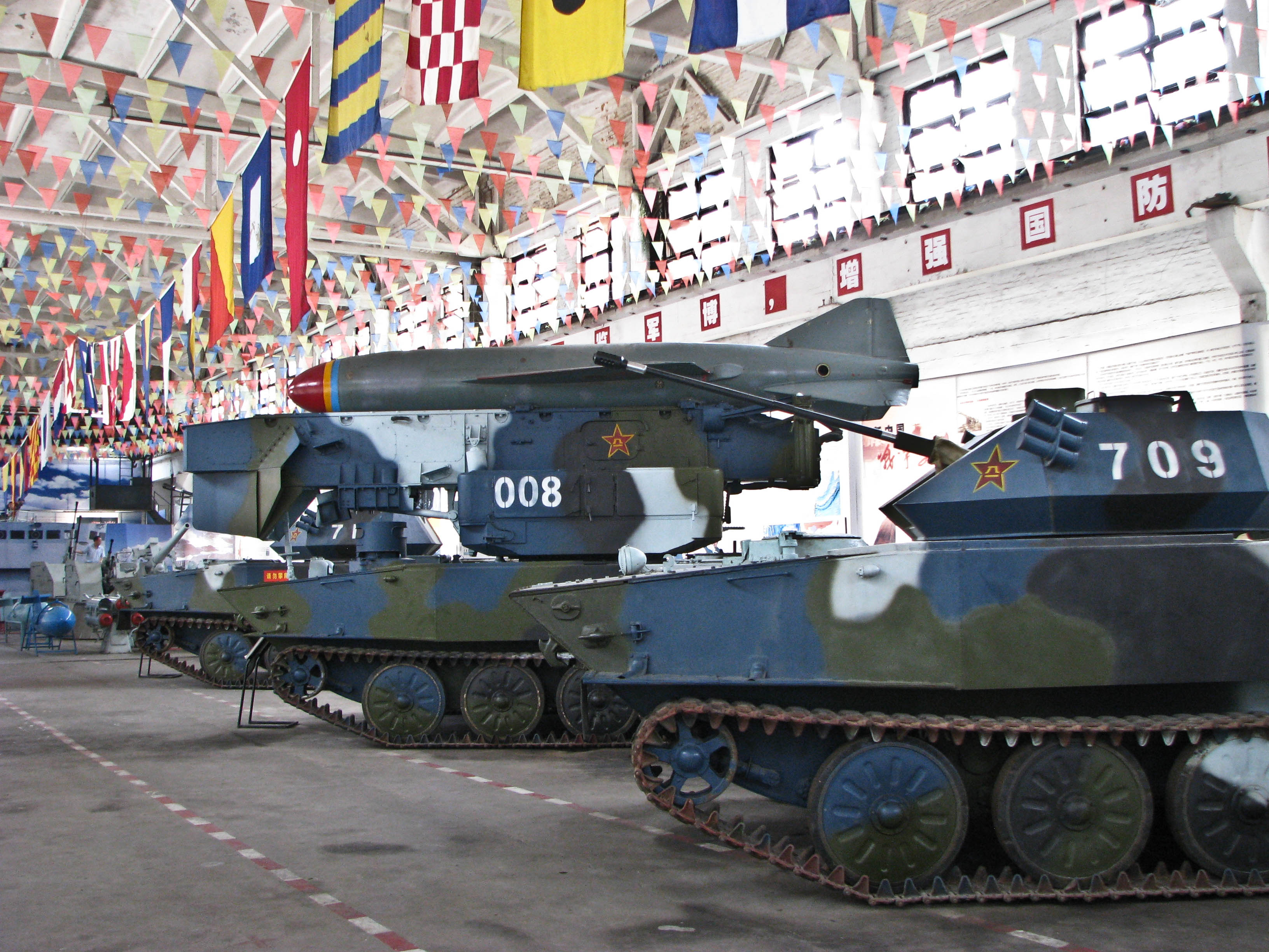 Chinese military vehicles in the Huangpu Military Academy, Guangzhou.